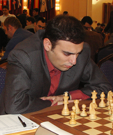 GM Karen Asrian (Aemenia), Heraklion 2007